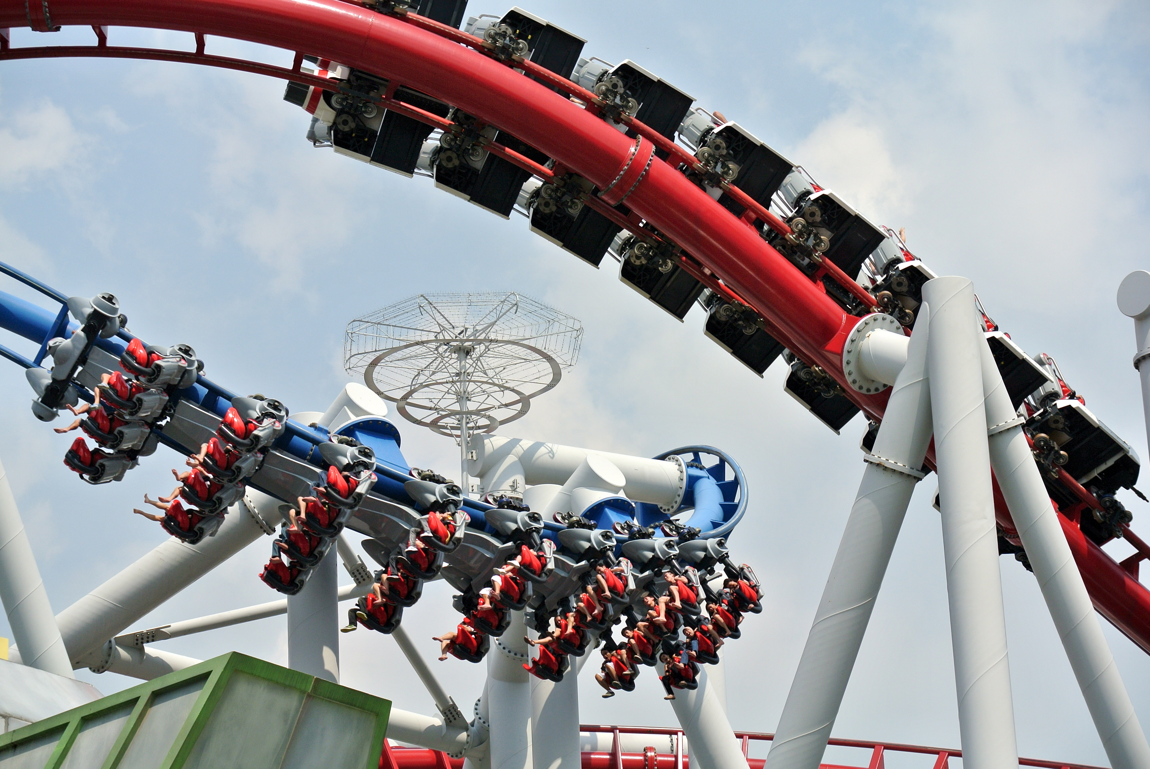 Battlestar Galactica